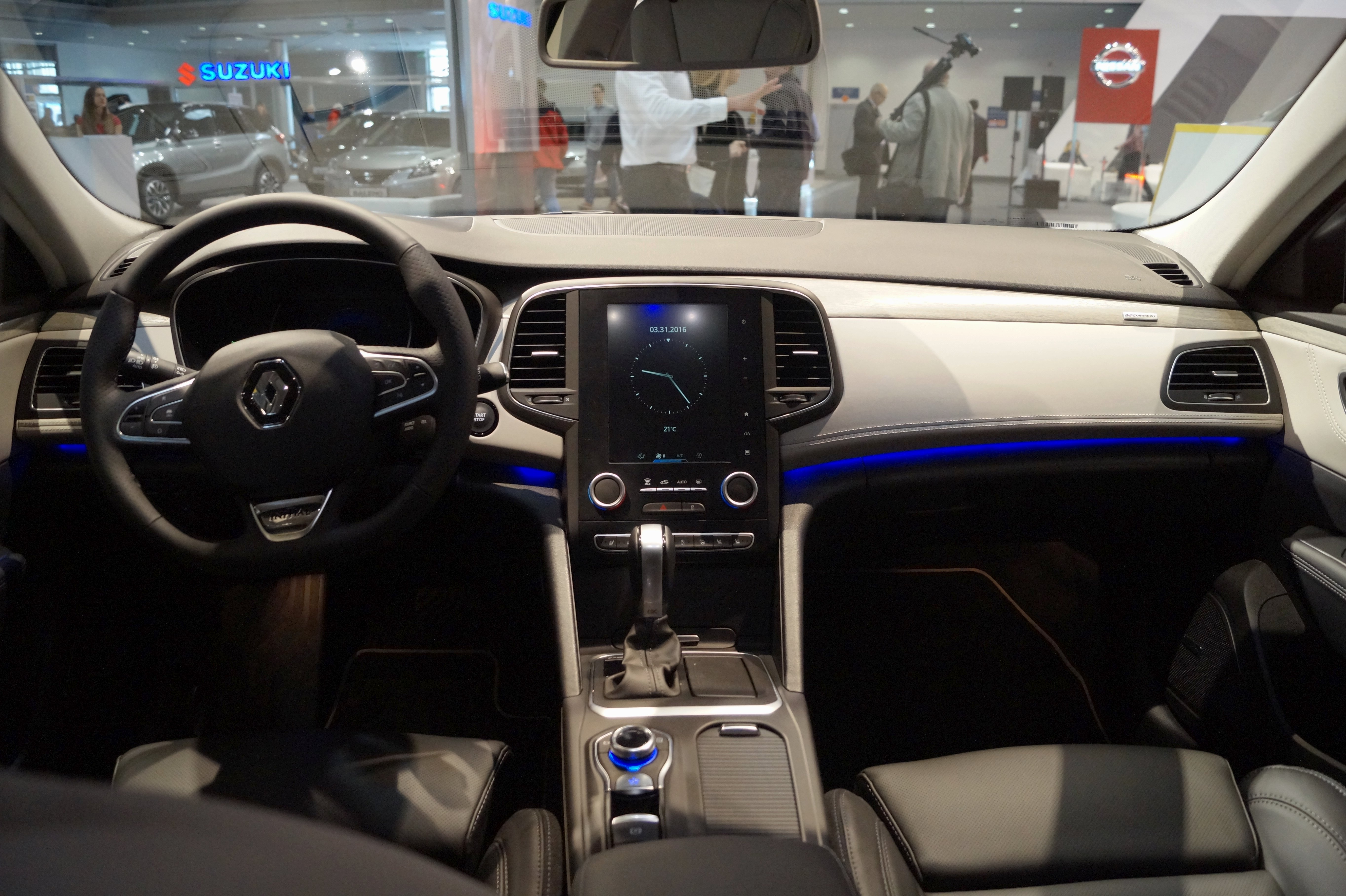 The making of this document was supported by Wikimedia Polska Association, within Wikigrant no. WG 2016-10. Wnętrze Renault Talisman na Motor Show Poznań 2016